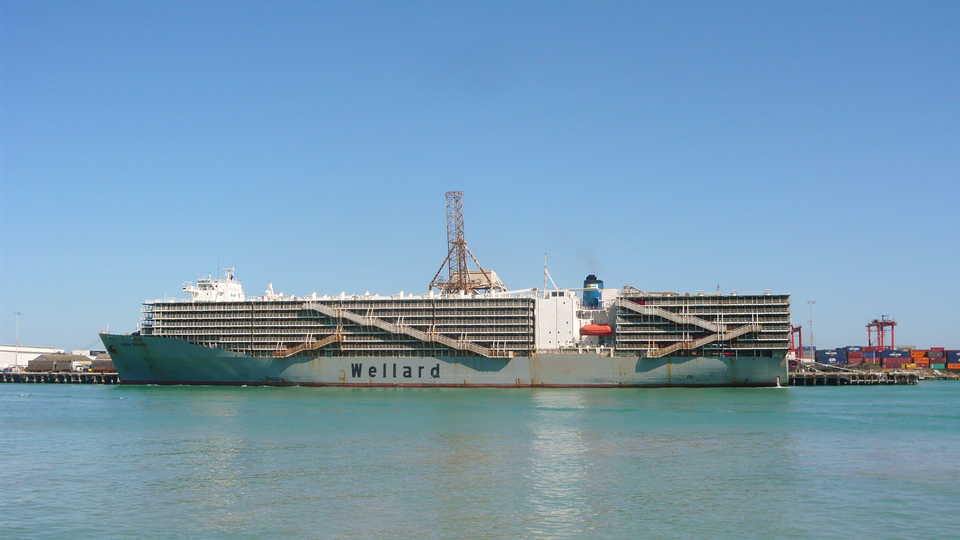 Livestock carrier Ocean Shearer berthed at North Quay, in the inner harbour of Fremantle Harbour, Western Australia.